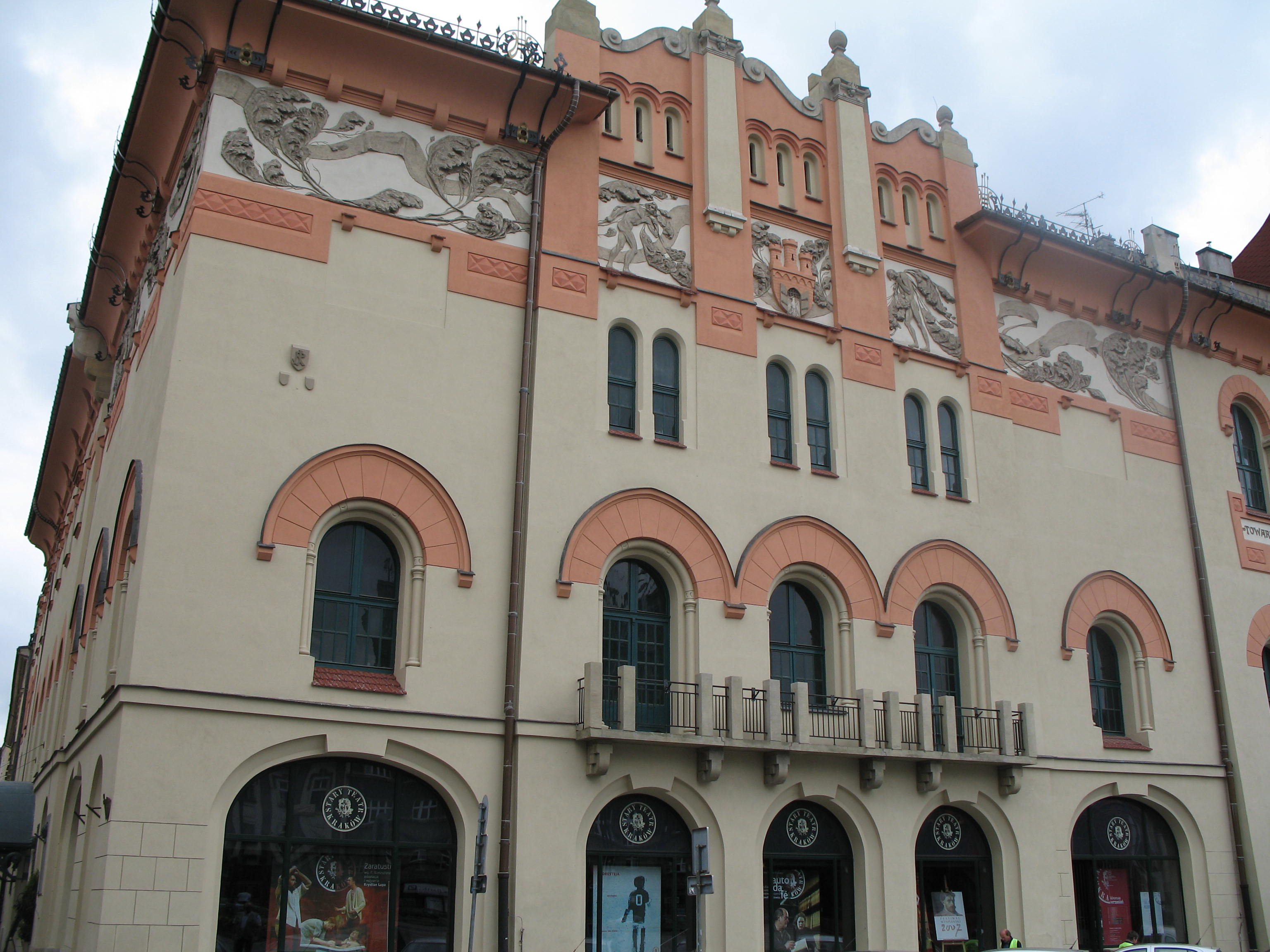 Old Theatre in Kraków, Poland